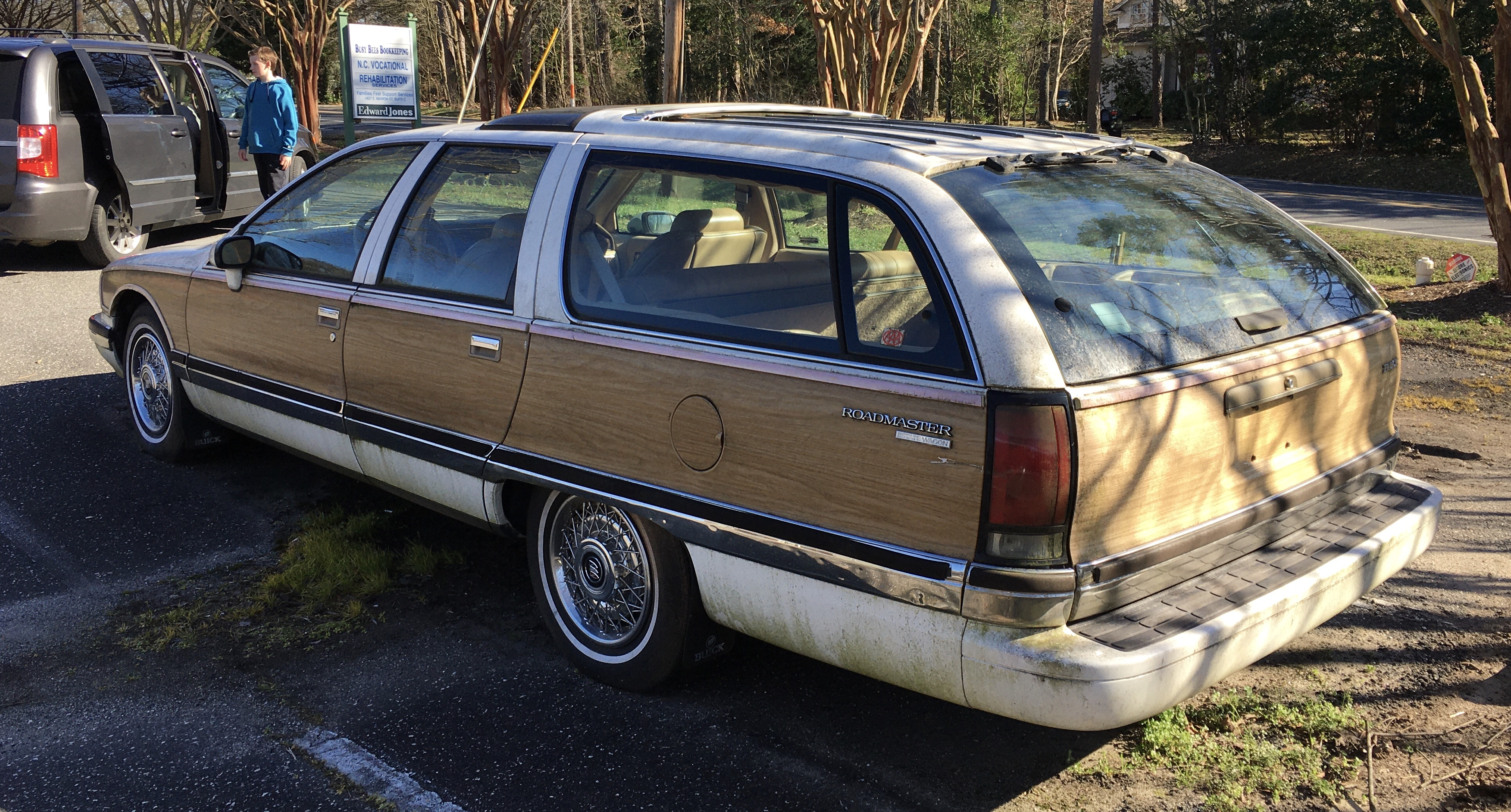 The rear view of a Buick Roadmaster wagon from the 90s